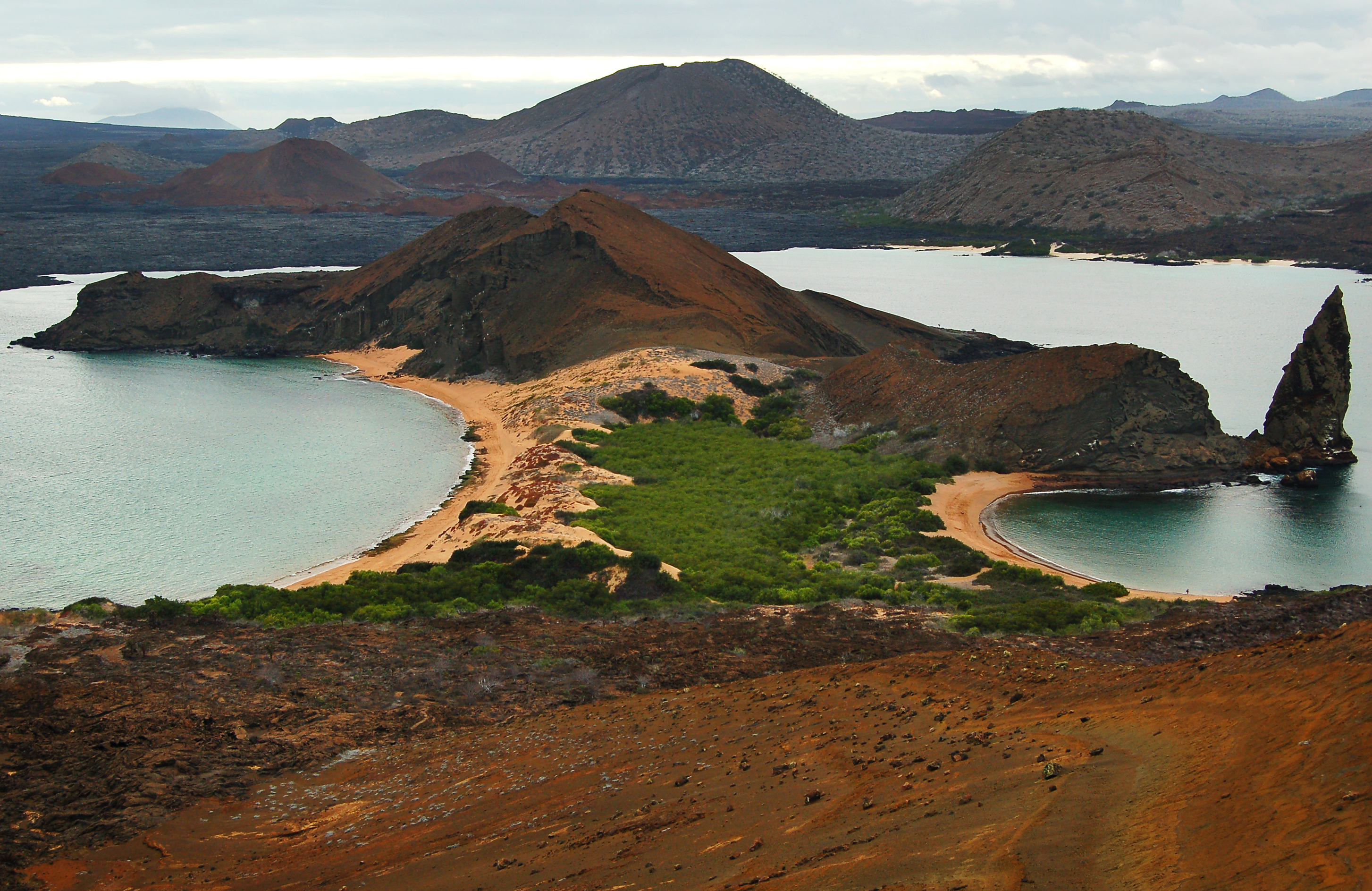 The shot